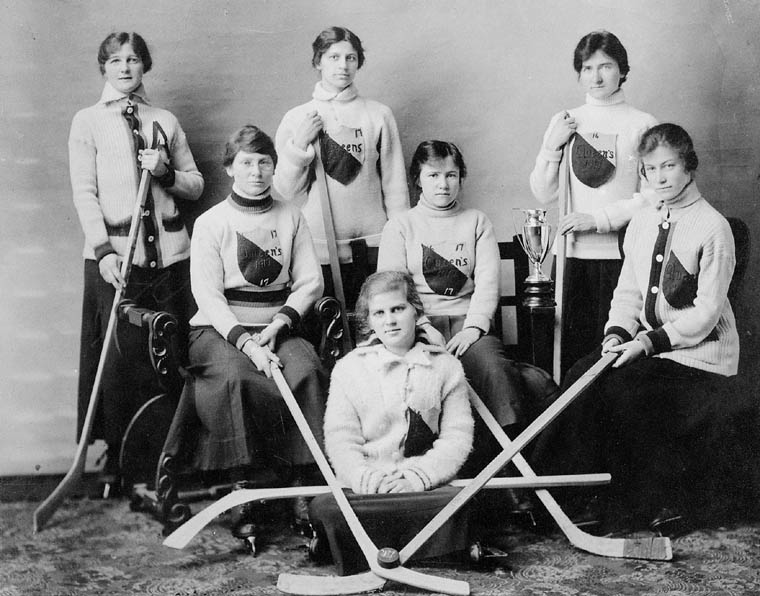 Group ice hockey team portrait, Queen's University, Kingston, Ontario.